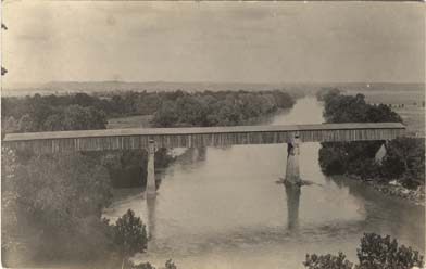 Chattahoochee River covered bridge in Eufaula, Alabama. Built by Horace King in 1838–39 and demolished in 1924.